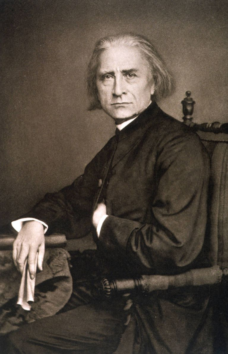 Ferenc Liszt